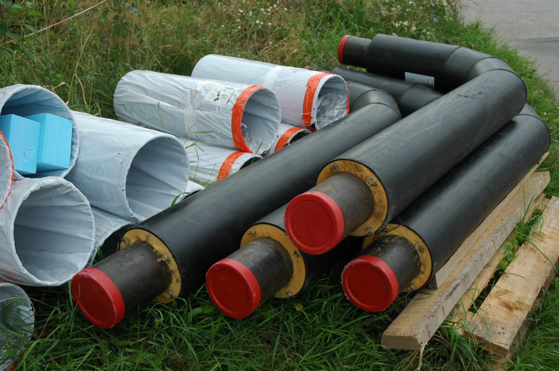 Part of a district heating piping system form a construction site of EVN Wärme in Austria